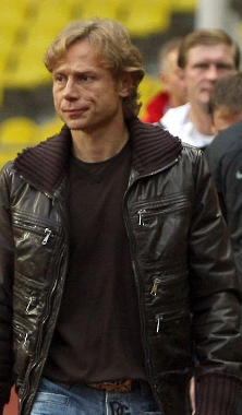 Karpin, former Russian footballer